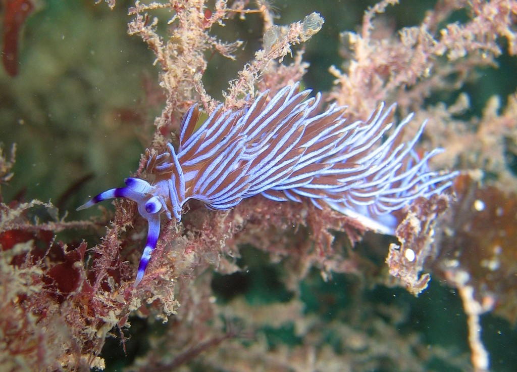 A Serpent Pteraeolidia (Pteraeolidia ianthina). Halifax Point, Port Stephens, NSW